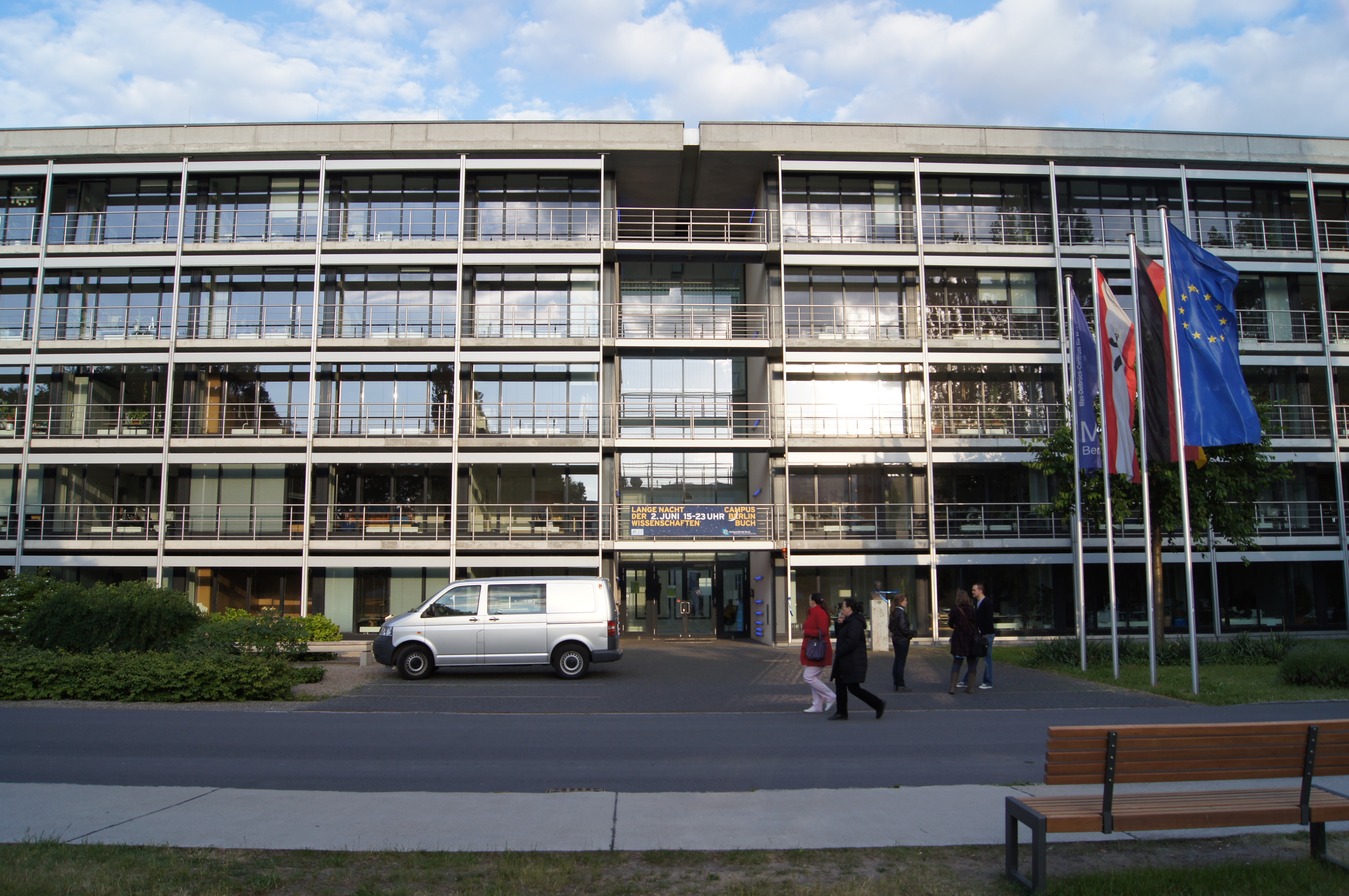 Campus Berlin-Buch, Germany. Long Night of Sciences 2012. Building of the Max Delbrück Centre for Molecular Medicine